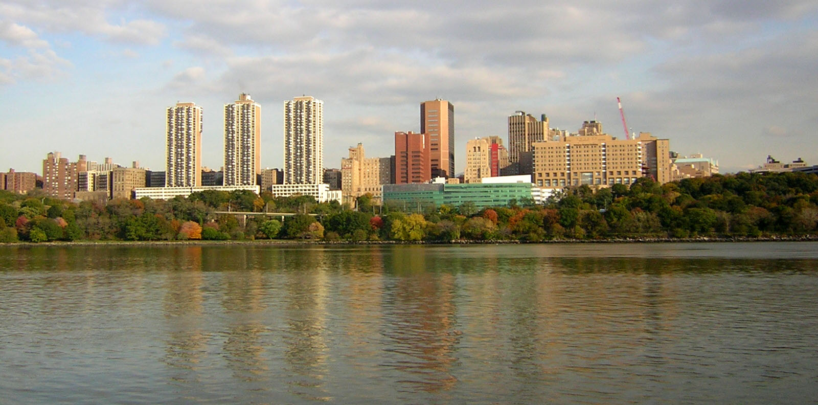 NewYork-Presbyterian Hospital and Washington Heights vicinity, from a Circle Line boat in the middle of the Hudson River.